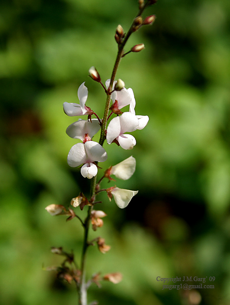 Desmodium gangeticum (syn. Hedysarum Gangeticum)- Sal Leaved Desmodium • Hindi: ध्रुवा dhruva, दीर्घमूली dirghamuli, पीवरी pivari, सालपानी salpani, शालपर्णी shalparni • Manipuri: পোৰোঙখোক Porongkhok • Marathi: डाय dai, रानगांज्या ranganjya, साळवण salvan • Tamil: புள்ளடி pullati • Malayalam: ഓരില orila • Telugu: గీతనారము gitanaramu • Kannada: ಮೂರೆಲೆಹೊನ್ನೆ murelehonne • Bengali: chalani, salpani • Oriya: salaparni • Konkani: सालपर्णी salparni • Nepali: बन गहत ban gahat, सालीपरनी saliparni • Gujarati: સલવાન salwan • Sanskrit: अंशुमती anshumati, ध्रुवा dhruva, दीर्घमूला dirghamoola, पीवरी pivari, शालपर्णी shalaparni- at Ananthagiri Hills, in Rangareddy district of Andhra Pradesh, India.